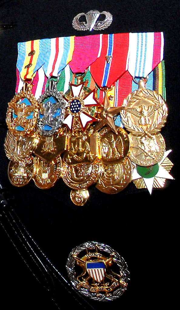 Close-up of medals worn by Gen. Peter Pace, USMC.